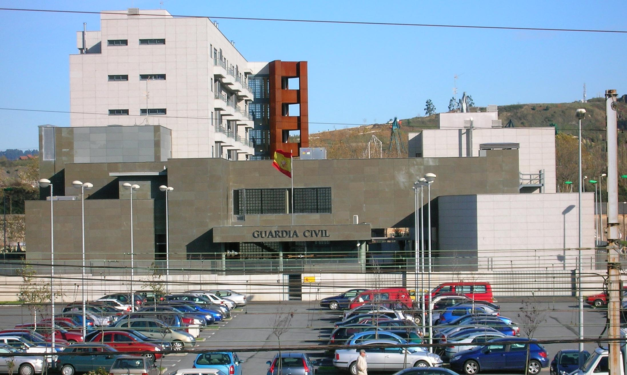 Parking lot, Spanish Guardia Civil quarters and houses in Barakaldo. Behind, a hill in Erandio, Vizcaya.